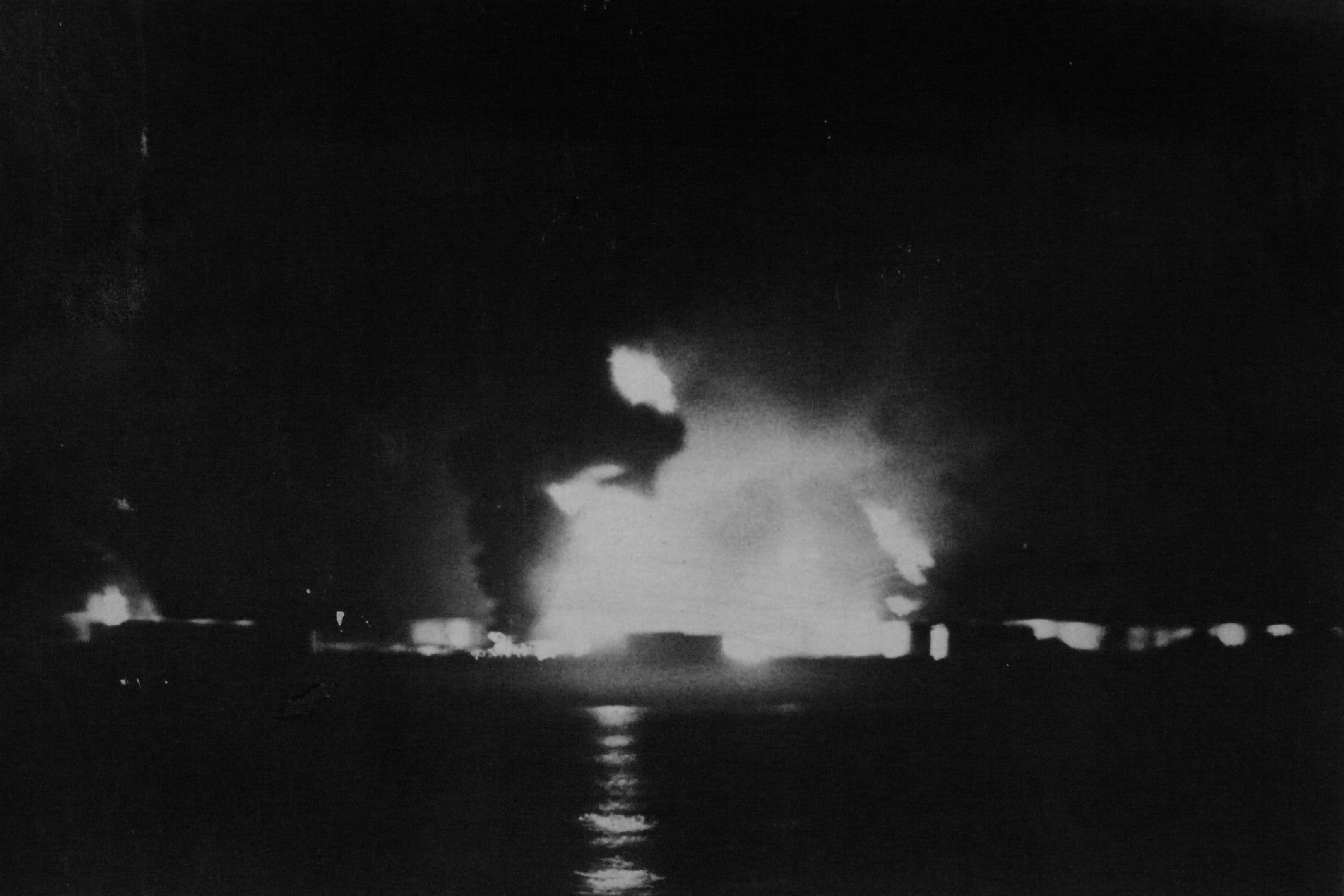 The Banyas oil terminal in Syria after being ignited with 76 mm shells from Israeli Saar boats